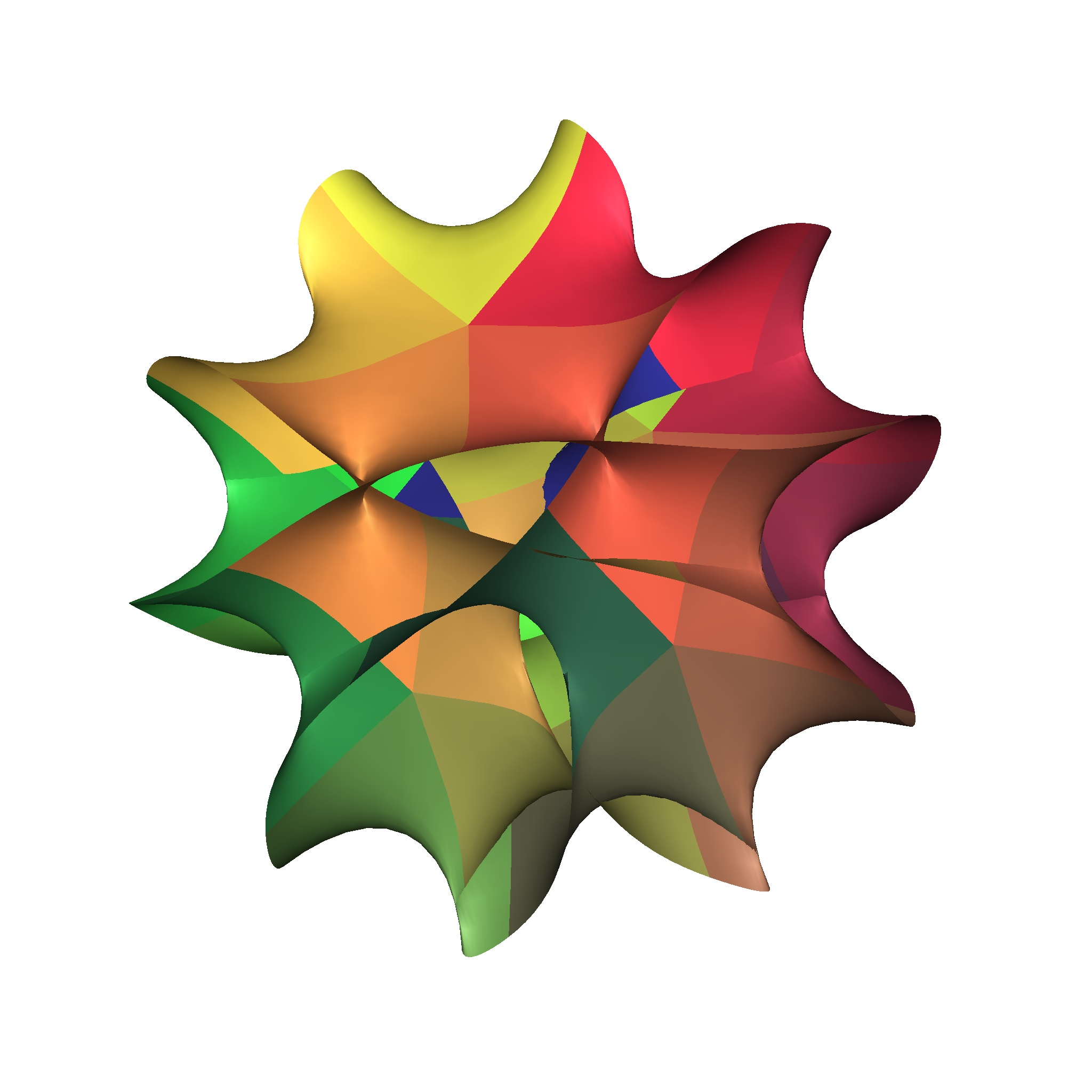 This image shows a local 2D cross-section of the real 6D manifold known in string theory as the Calabi-Yau quintic. This is an Einstein manifold and a popular candidate for the wrapped-up 6 hidden dimensions of 10-dimensional string theory at the scale of the Planck length. The 5 rings that form the outer boundaries shrink to points at infinity, so that a proper global embedding would be seen to have genus 6 (6 handles on a sphere, Euler characteristic -10). The underlying real 6D manifold (3D complex) has Euler characteristic -200, is embedded in CP4, and is described by this homogeneous equation in five complex variables: z05 + z15 + z25 + z35 + z45 = 0 The displayed surface is computed by assuming that some pair of complex inhomogenous variables, say z3/z0 and z4/z0, are constant (thus defining a 2-manifold slice of the 6-manifold), renormalizing the resulting inhomogeneous equations, and plotting the local Euclidean space solutions to the inhomogenous complex equation z15 + z25 = 1 This surface can be described as a family of 5x5 phase transformations on a fundamental domain, 1/25th of the surface, shown (slightly hidden) in blue. Each of the first set of phases mixes in a brighter red color to its patch, and the second set mixes in green. Thus the color alone shows the geometric parentage of each of the 25 patches. The resulting surface, which is embedded in 4D, is projected to 3D according to one's taste to produce the final rendering. Further details are given in Andrew J. Hanson, "A construction for computer visualization of certain complex curves," Notices of the Amer. Math. Soc. 41 (9): 1156-1163, (November/December 1994).